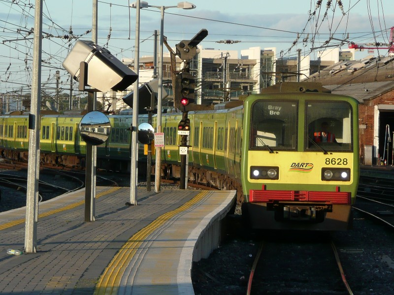 DART 8520 Class electric multiple unit at Connolly railway station, Dublin, Ireland